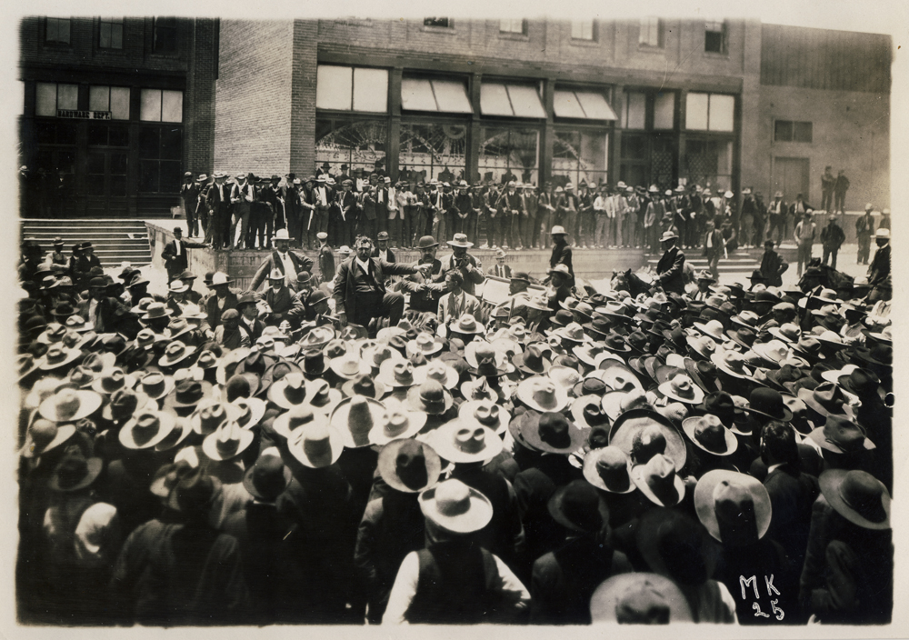 Creator: Great Western View Co. Date: June 3, 1906 Part of: Place: Cananea, Mexico Description: Colonel Greene, from his automobile, addresses the strikers at Cananea on June 3, 1906. Deputized Company employees are in the background. Governor Rafael Izabal is seated behind Greene to his left; Frank Moson, without hat on right, is on the running board. This photograph is part of the Cananea, Mexico collection which includes 20 photographs of Cananea, Mexico located just across the Arizona border showing striking miners, armed men, demonstrations, the mine site, town views and American company employees. Included are views of Colonel William C. Greene of Greene Consolidated Copper Company addressing strikers, June 3, 1906. The conflict is considered the beginnings of the Mexican Revolution. Physical Description: 1 photographic print: gelatin silver, black and white; 12.7 x 17.8 cm. File: ag1983_0282_05_opt.tif Rights: Please cite DeGolyer Library, Southern Methodist University when using this file. A high-resolution version of this file may be obtained for a fee. For details see the web page. For other information, . For more information, View Mexico: Photographs, Manuscripts, and Imprints at